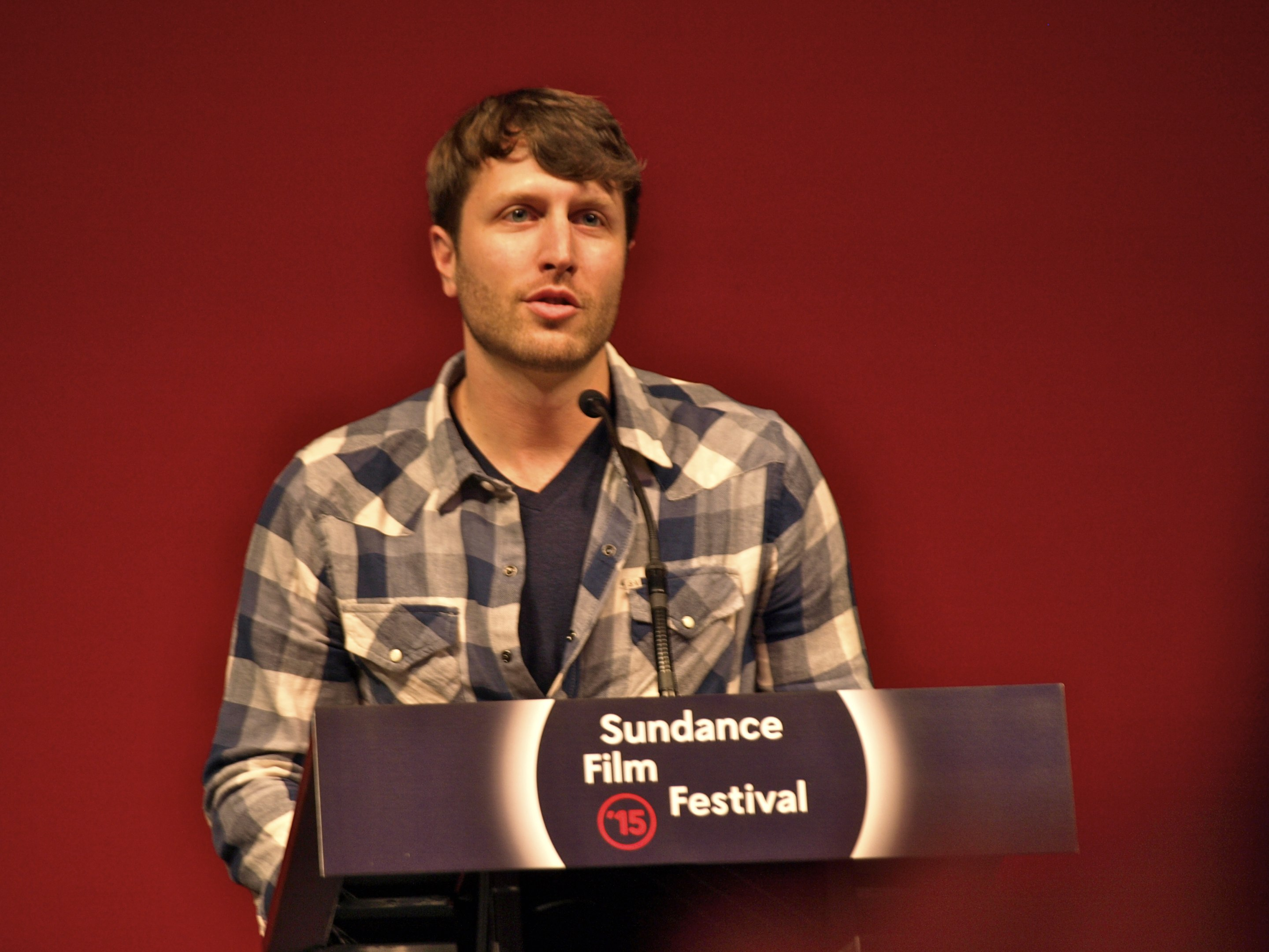 Matthew Heineman at Sundance 2015